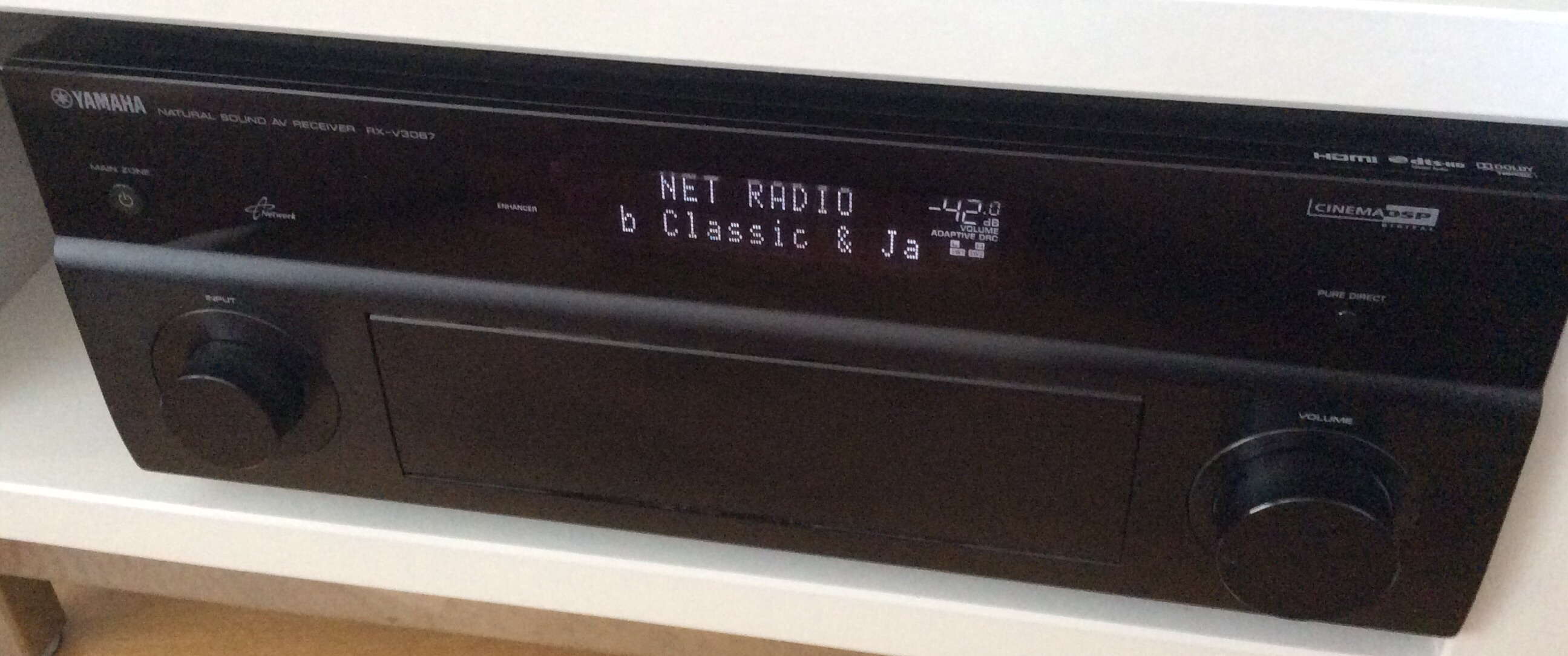 Nykyaikainen HiFi-vahvistin, jossa on integroituna myös radiovastaanotin ja DA-muunnin. Laite toistaa paitsi analogista signaalia myös digitaalista sisältöä tietoverkosta ja vahvistimeen kytketyistä signaalilähteistä ja tallennusmuisteista.